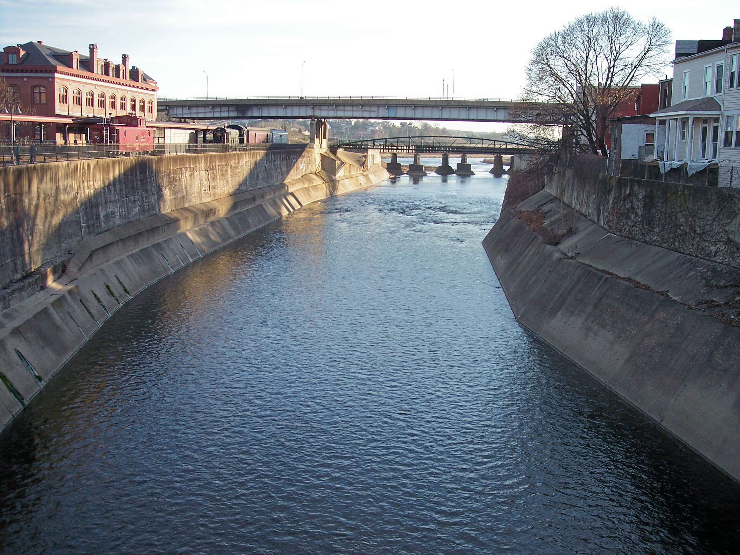 Wills Creek as viewed downstream from Baltimore Street in Cumberland, Maryland. Inerstate 68 and the creek's mouth at the North Branch of the Potomac River are visible in the distance.